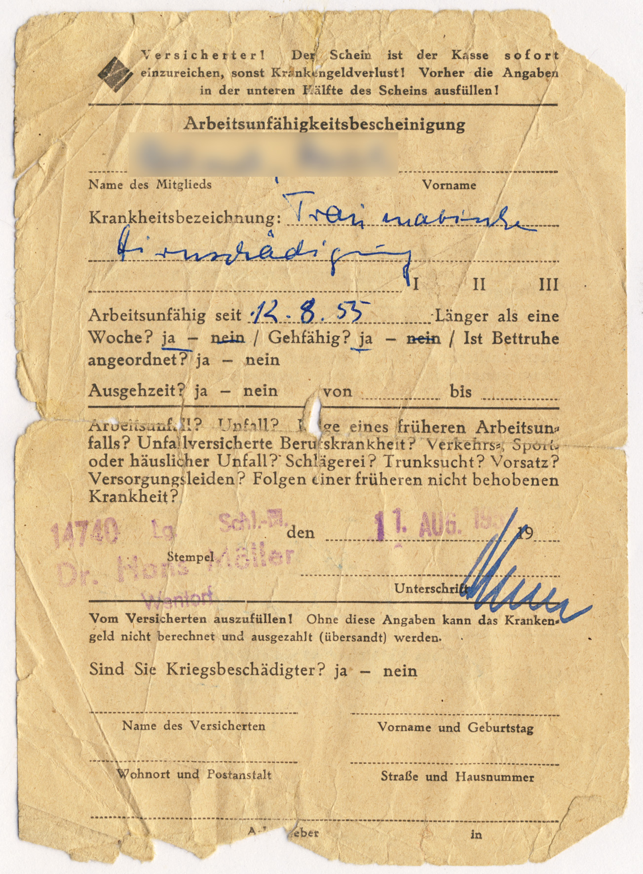 Attestation for sick leave; issued in 1955 in Germany (anonymized data).